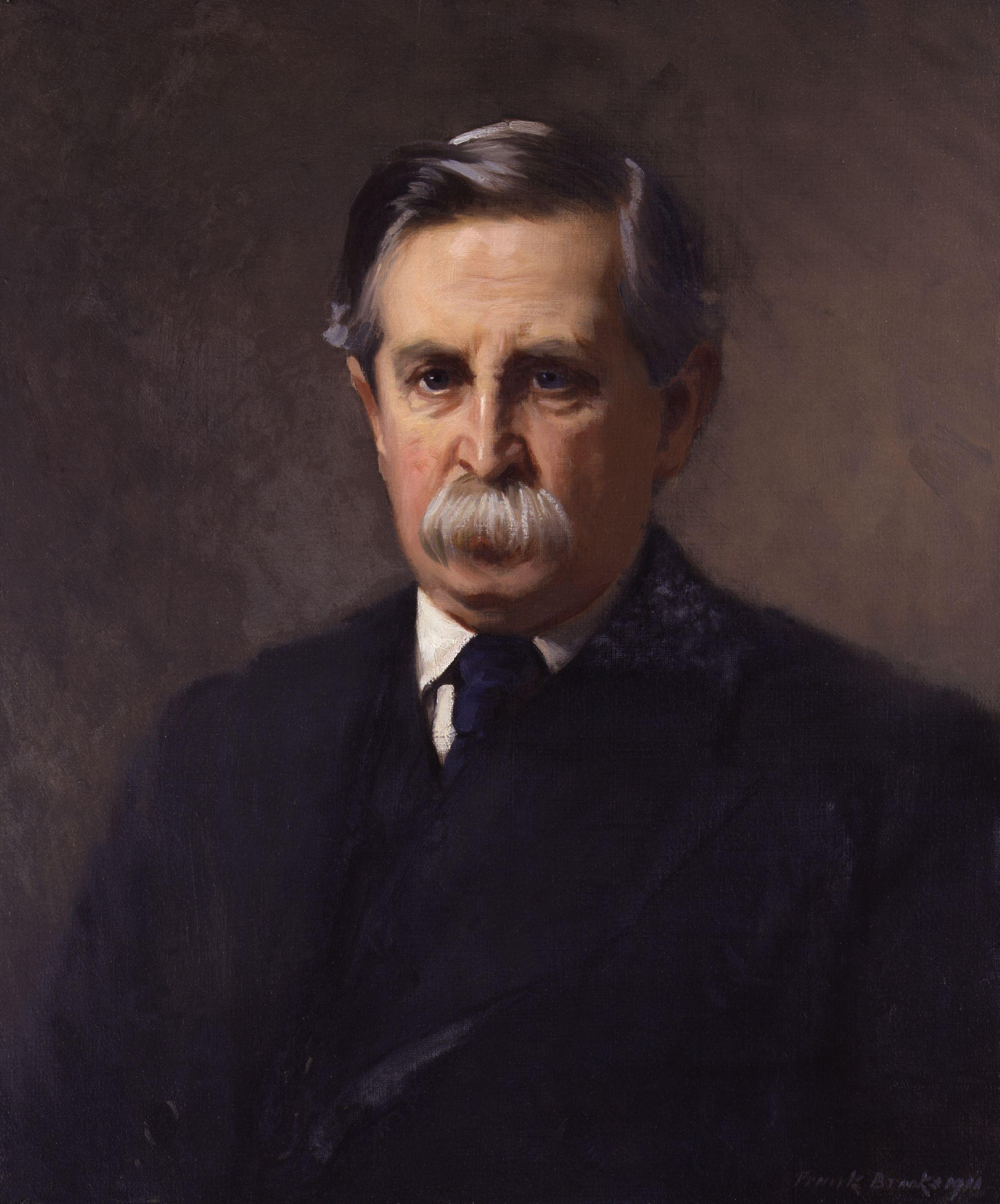 (Henry) Austin Dobson, by Frank Brooks (died 1937). All images in this batch have been confirmed as author died before 1939 according to the official death date listed by the NPG.